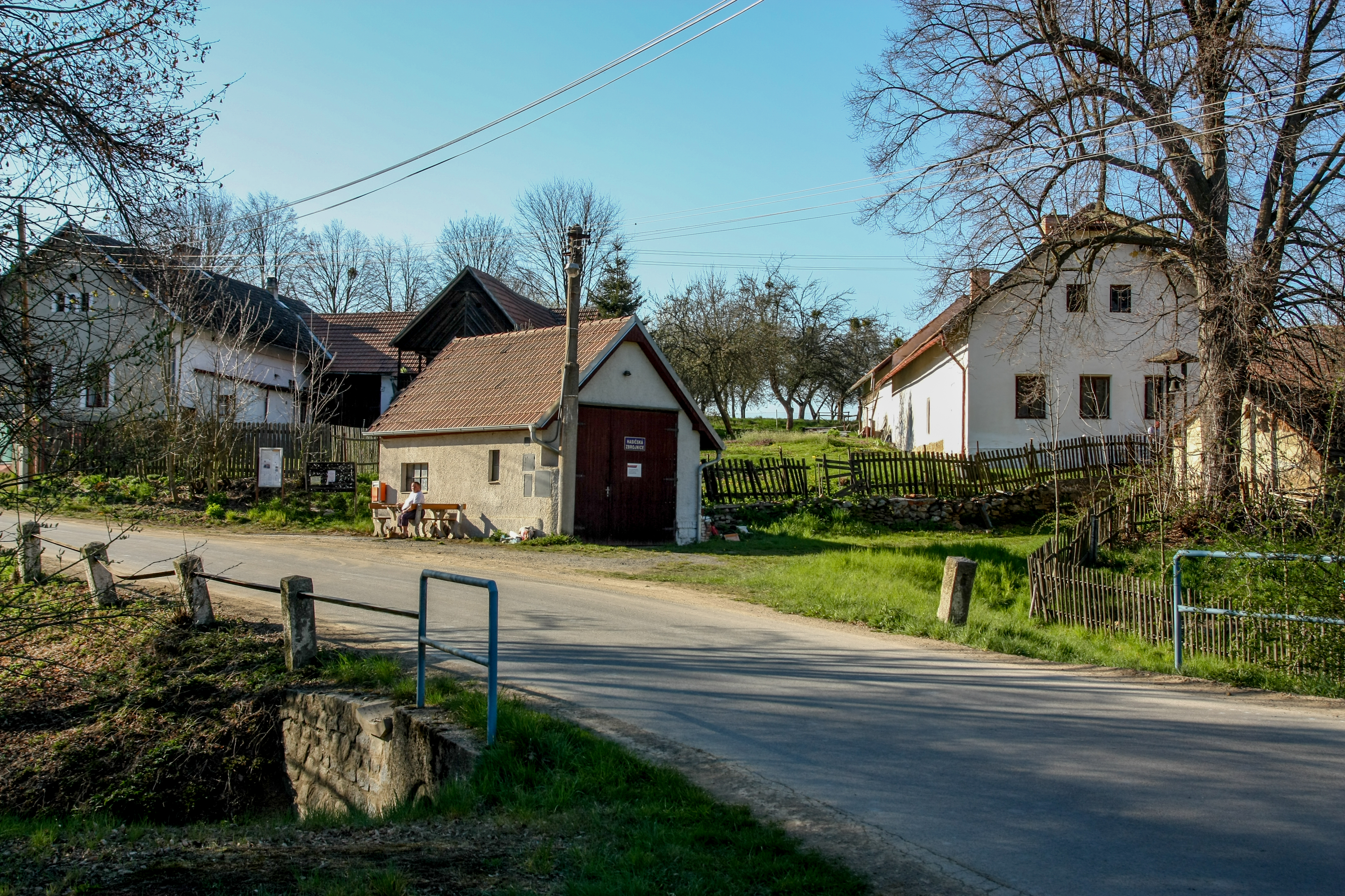 Firehouse in municipality Radíč (Ješetice), Benešov District, Central Bohemian Region, Czechia